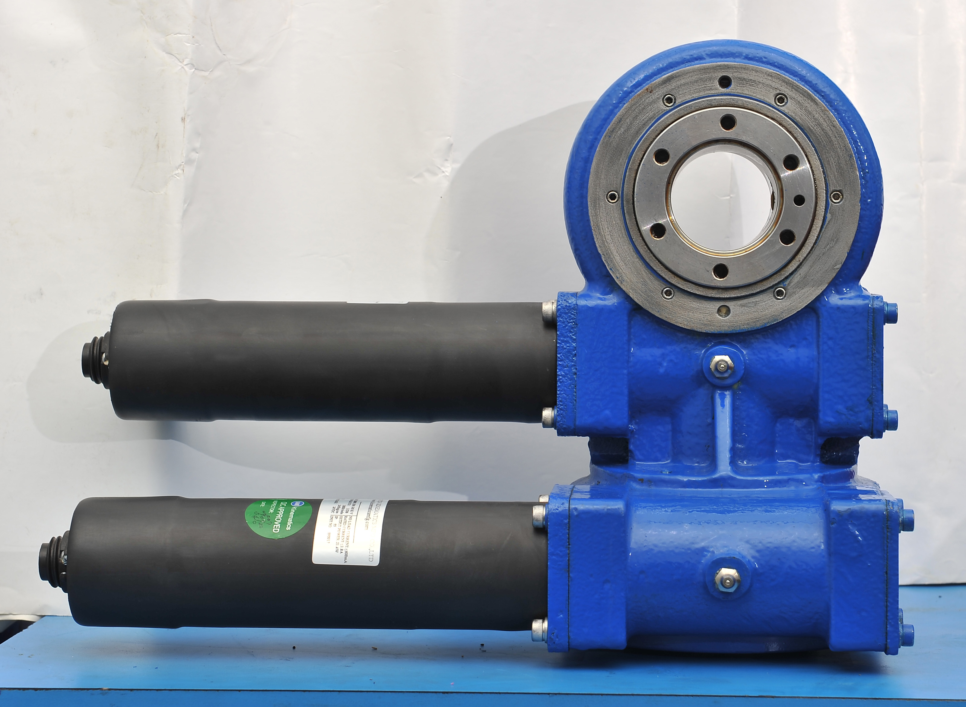 Kinematics slewing drives are designed, tested and used for a 30-year field life. Kinematics slew drives are powered with hourglass worm technology to give the maximum survivability load-holding capability as well as increased efficiency and accuracy. Unlike standard worms which touch only 1 tooth, the hourglass worm engages 5-11 teeth on the pitch line of the ring gear from the hourglass thread. This increased tooth engagement gives the gearbox enormous strength and power.